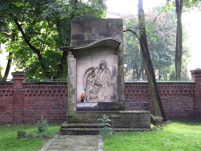 Calvary in Katowice Panewniki, Chapel of the Rosary - The third joyful mystery "Nativity". Completed in 1957.